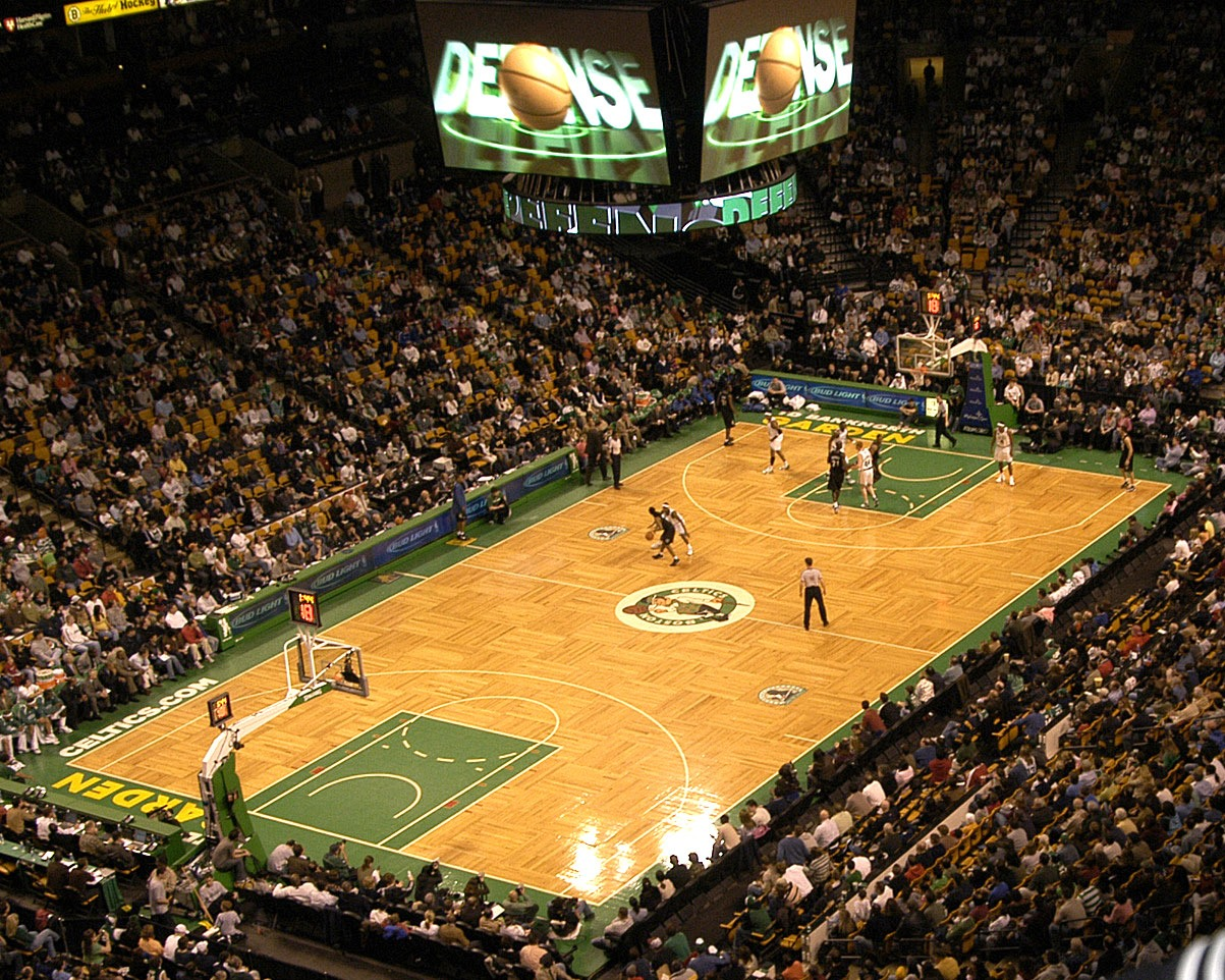 NBA basketball game between the Boston Celtics and the Minnesota Timberwolves in TD Banknorth Garden.